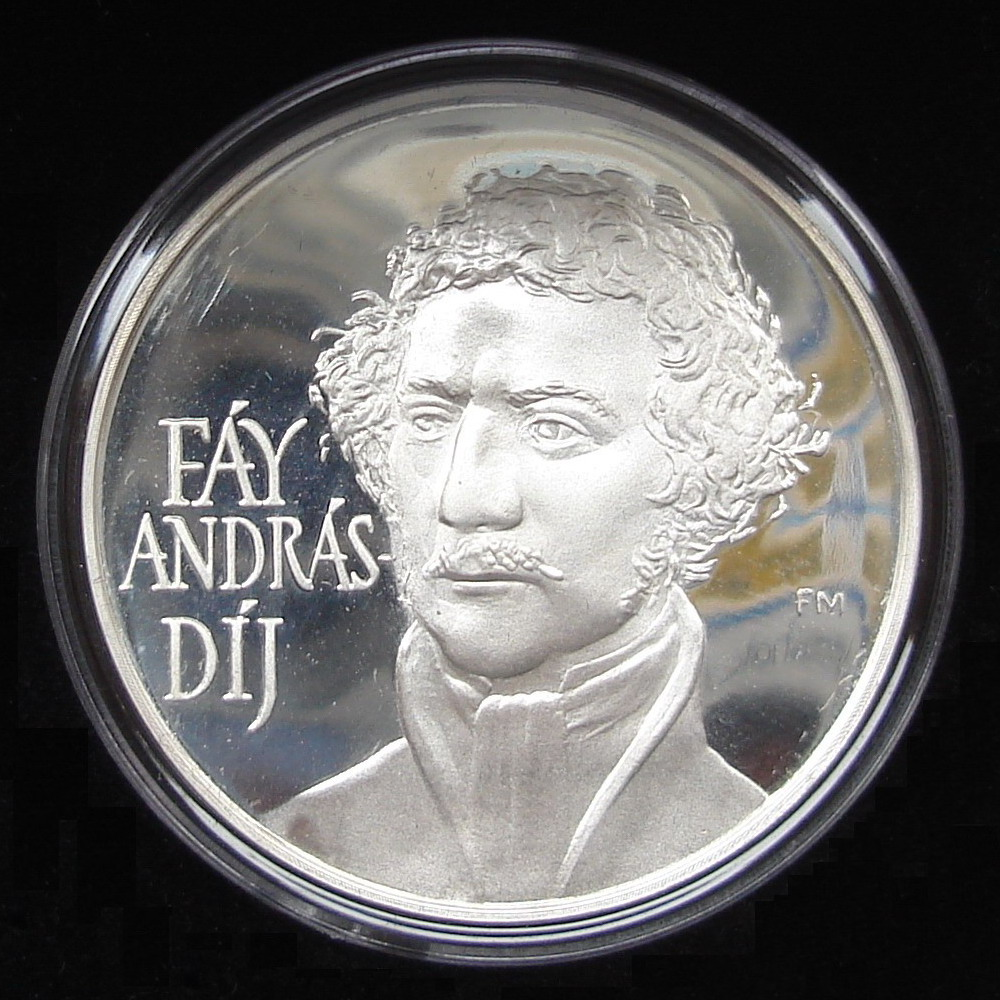 Medal of the Fáy András Prize distributed by the Hungarian Minister of Defence (obverse). It is made of silver having a diameter of 50 mm and a thickness of 3 mm. The engraver is Mr. Mihály Fritz.